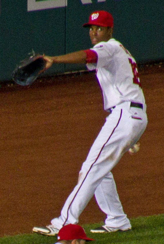 Michael Taylor